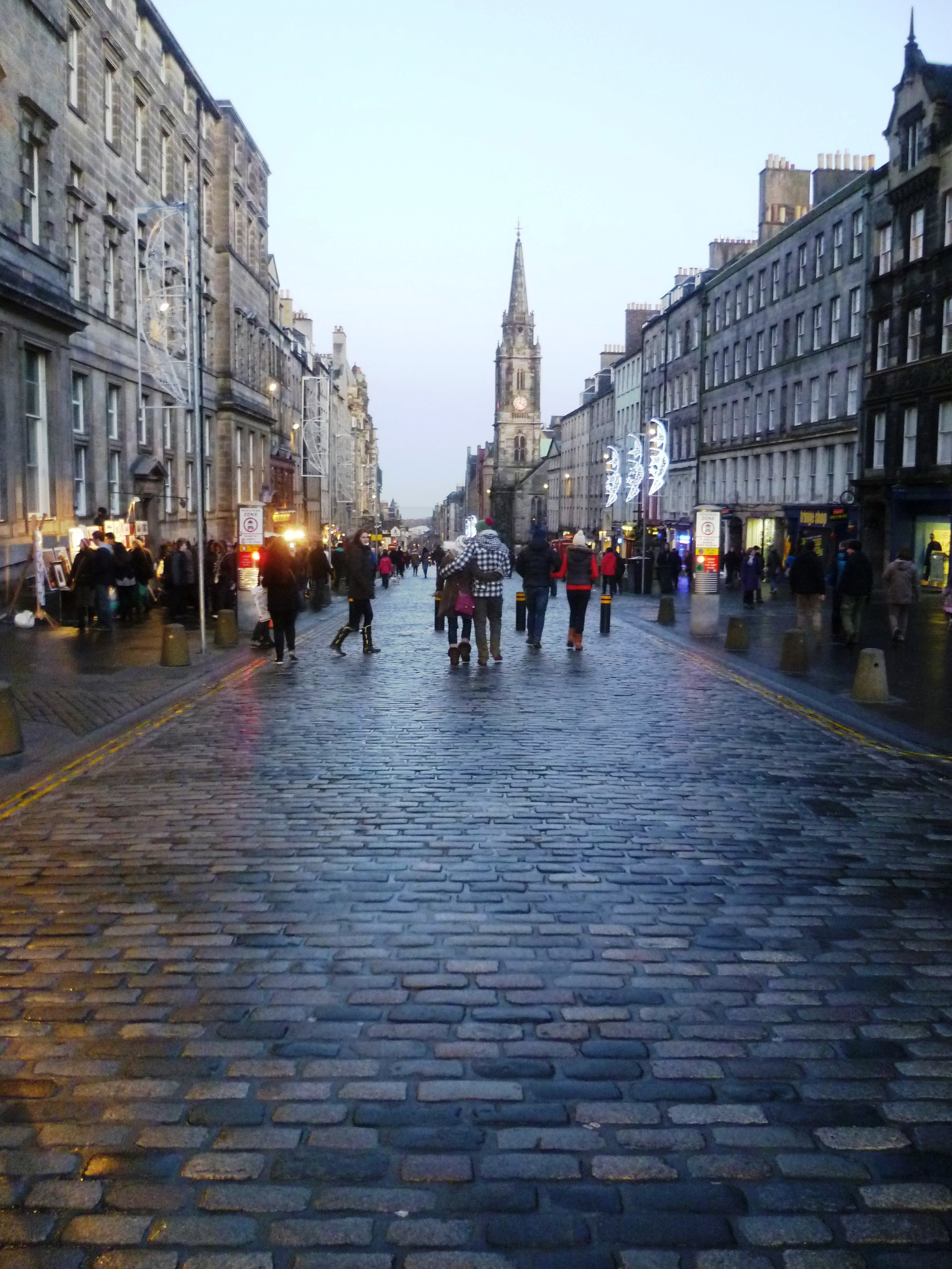 High Street setts, Edinburgh